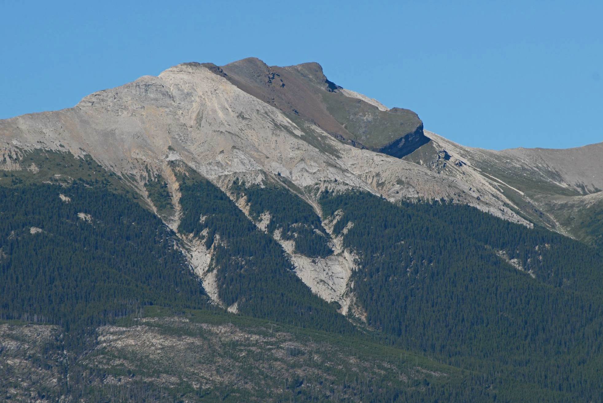 Roche Bonhomme in Jasper Park, Canada